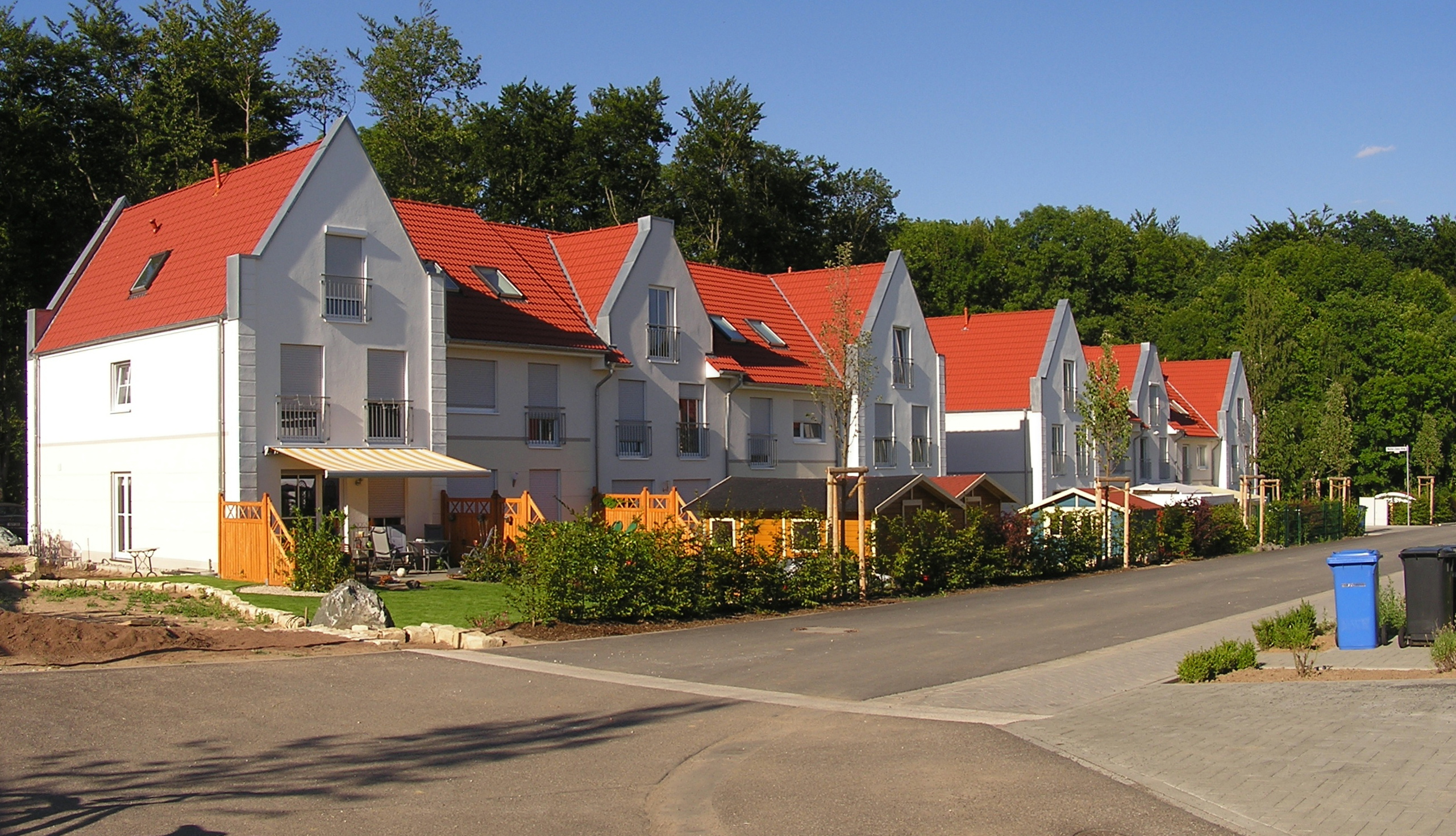 New houses in the building site Waldkristall on the ground of the former Tettauer Glaswerke